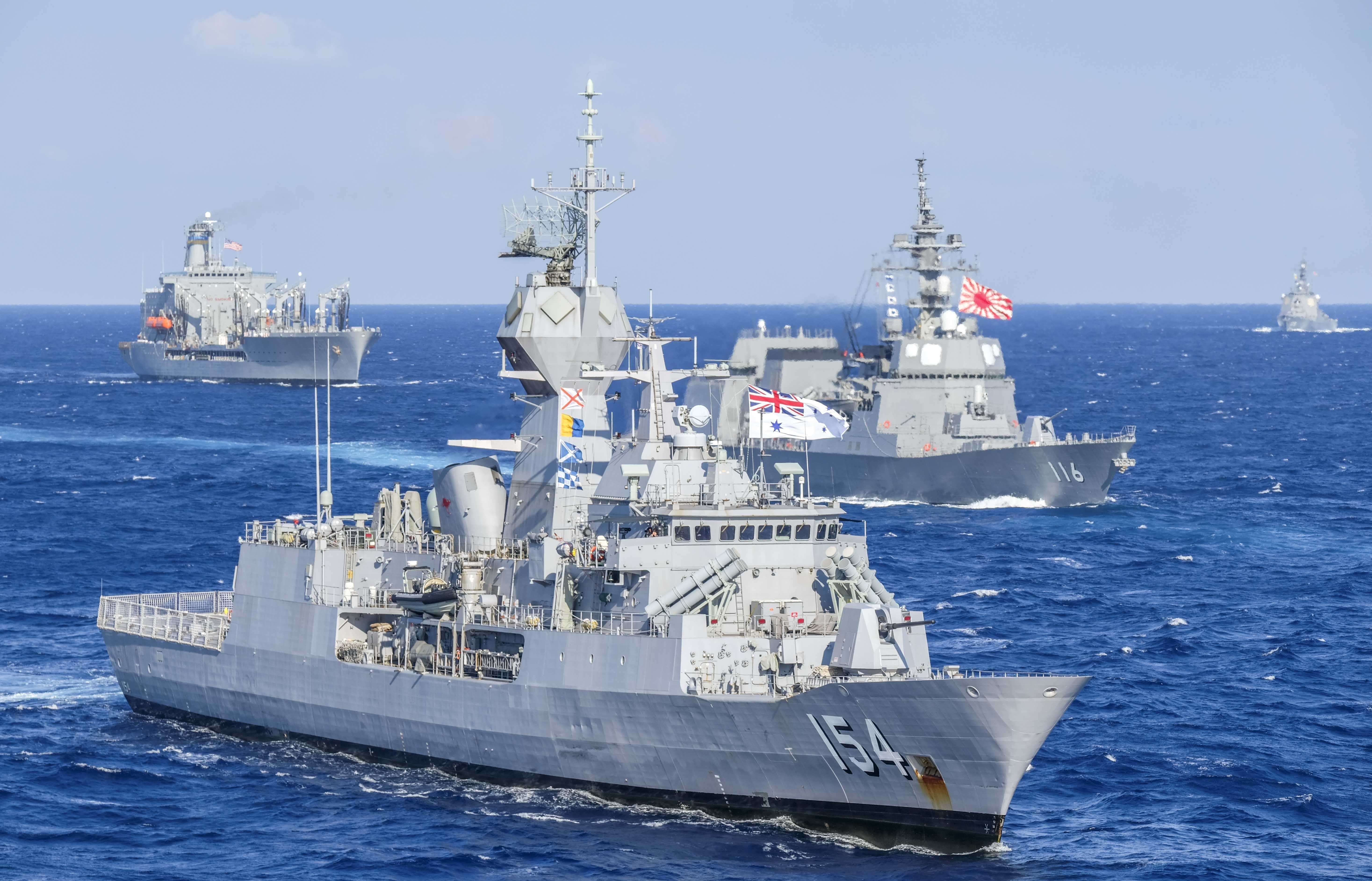 PHILIPPINE SEA (Nov. 11, 2019) Royal Australian Navy ship the Anzac-class frigate HMAS Parramatta (FFH 154), front, a Japan Maritime Self-Defense Force surface contact ship, center, and the underway replenishment oiler USNS Pecos (T-AO 197) sail in formation during Annual Exercise (ANNUALEX) 19. ANNUALEX 19 is a bilateral exercise which further develops coordination and interoperability of the premier alliance between the U.S. Navy and JMSDF. (U.S. Navy photo by Chief Operations Specialist Michael Ojeda)